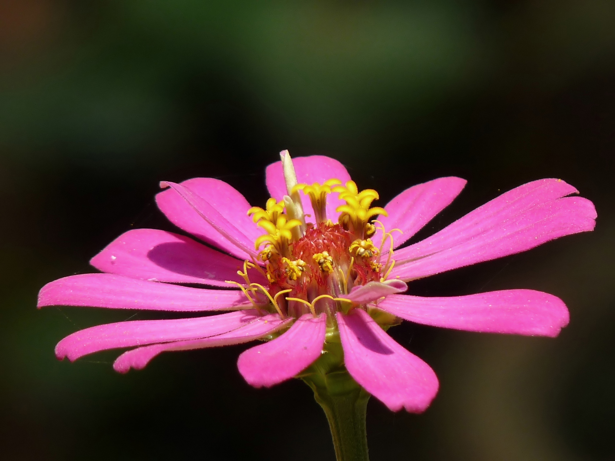 Zinnia elegans, Common zinnia, Youth-and-old-age, is an annual flowering plant of the genus Zinnia, is one of the best known zinnias. The uncultivated plant grows to about 30 in (76 cm) in height. It has solitary flower heads about 2 in (5 cm) across on stems resembling daisies. The purple florets surround black and yellow discs. The lanceolate leaves are opposite the flower heads. Wild Zinnia elegans is a desert plant found in Mexico. Garden varieties may escape and naturalise. The species was collected in 1789 at Tixtla, Guerrero, by Sessé and Mociño. It was formally described as Zinnia violacea by Cavanilles in 1791. Jacquin described it again in 1792 as Zinnia elegans, which was the name that Sessé and Moçiño had used in their manuscript of Plantae Novae Hispaniae, which was not published until 1890.